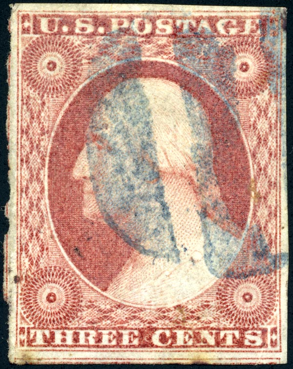 United States 3-cent postage stamp of 1851 with a likely double transfer through "REE CENTS"